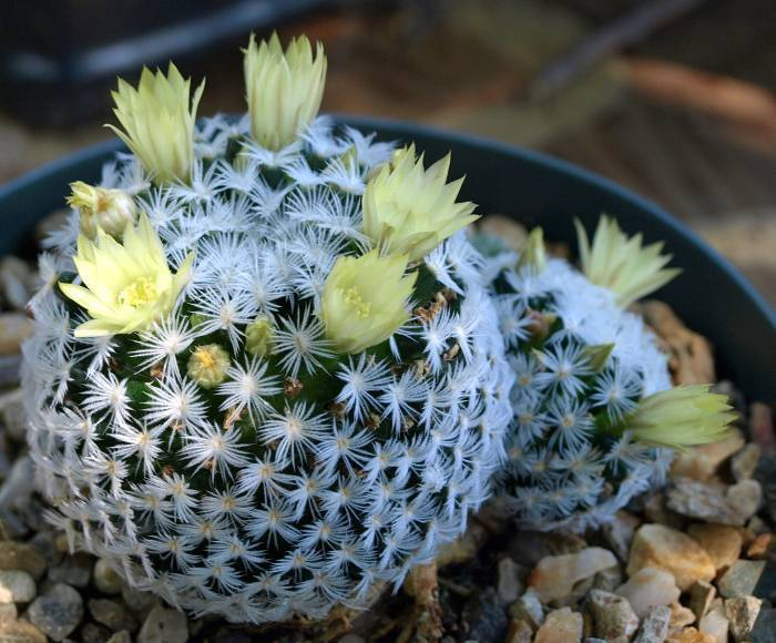 Photograph of Mammillaria duwei in flower